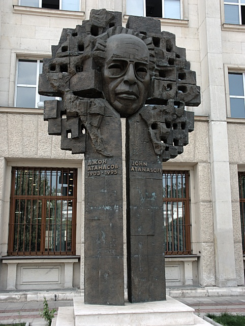 Monument of John Atanasoff in Sofia, Bulgaria] Sculpturer: Valko Tsenov